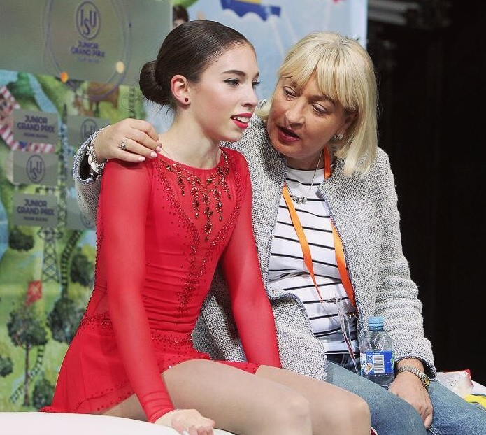 Anastasiia Arkhipova at 2018 ISU Junior Grand Prix in Lithuania